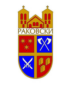 Proposal for coat of arms of the municipality of Rakovski, 2000